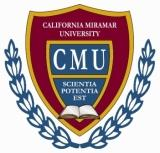 Logo for CMU.